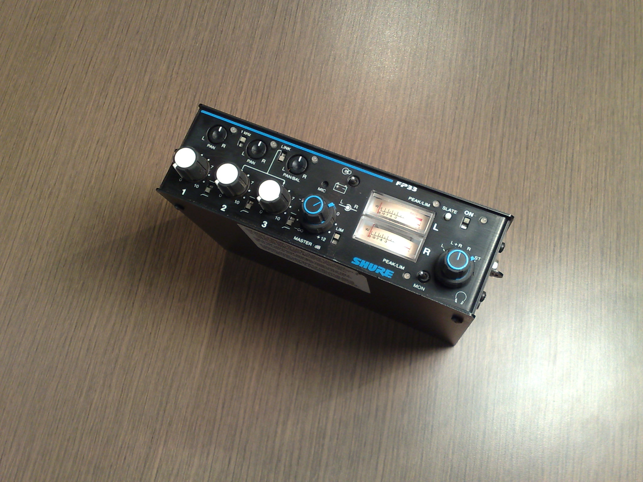 Shure FP33 3ch Stereo Mixer